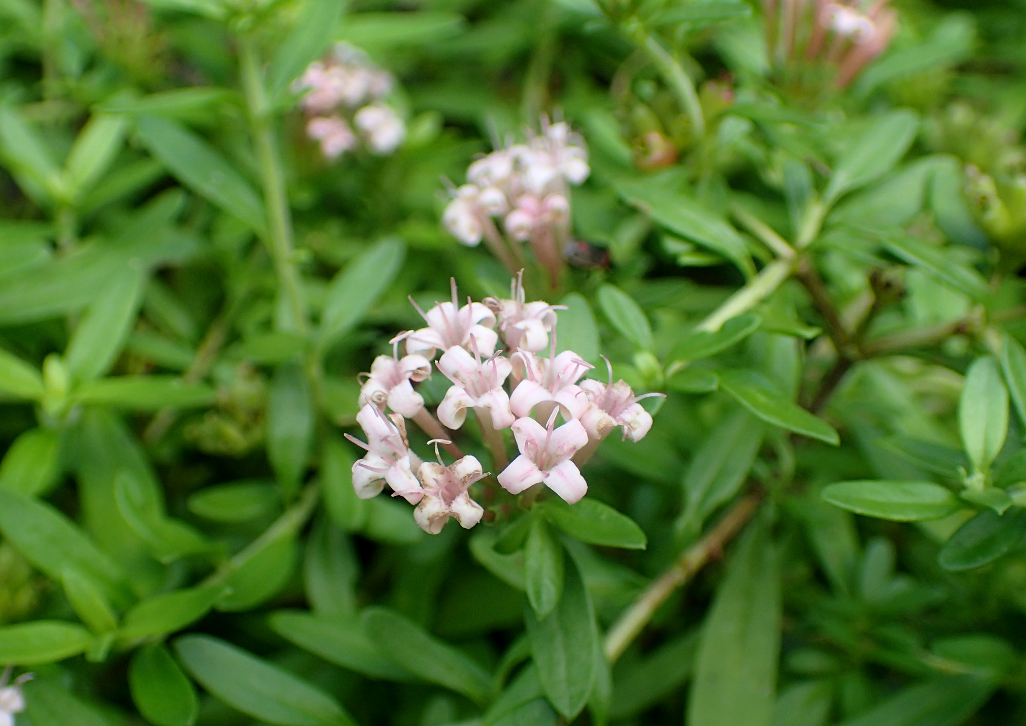 Plocama calabrica at the New York Botanical Garden